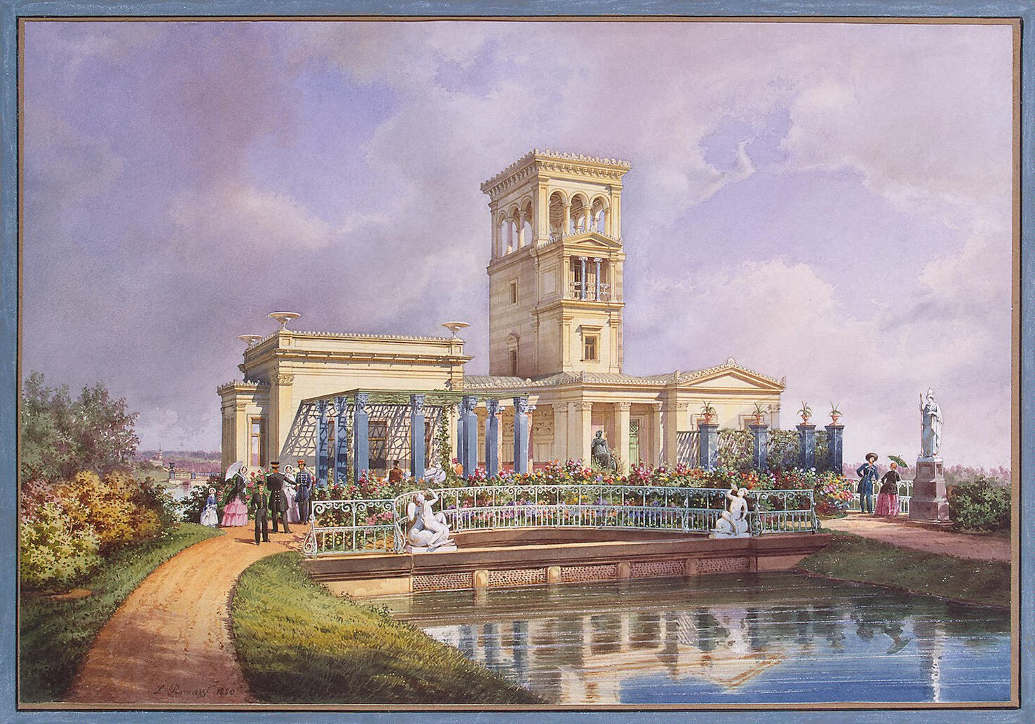 Rose Pavilion in the Lugovoi Park in Peterhof. Drawings, Watercolour and white, 28.4x41.2 cm. State Hermitage Museum, Source of entry: from the Library of Alexander II in the Winter Palace, 1920